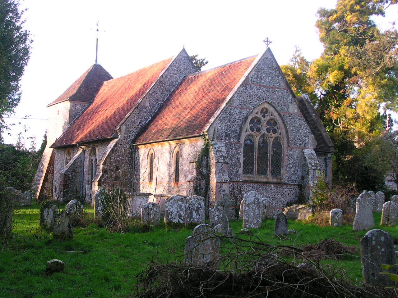 Madehurst Church, West Sussex, England. November 2007.